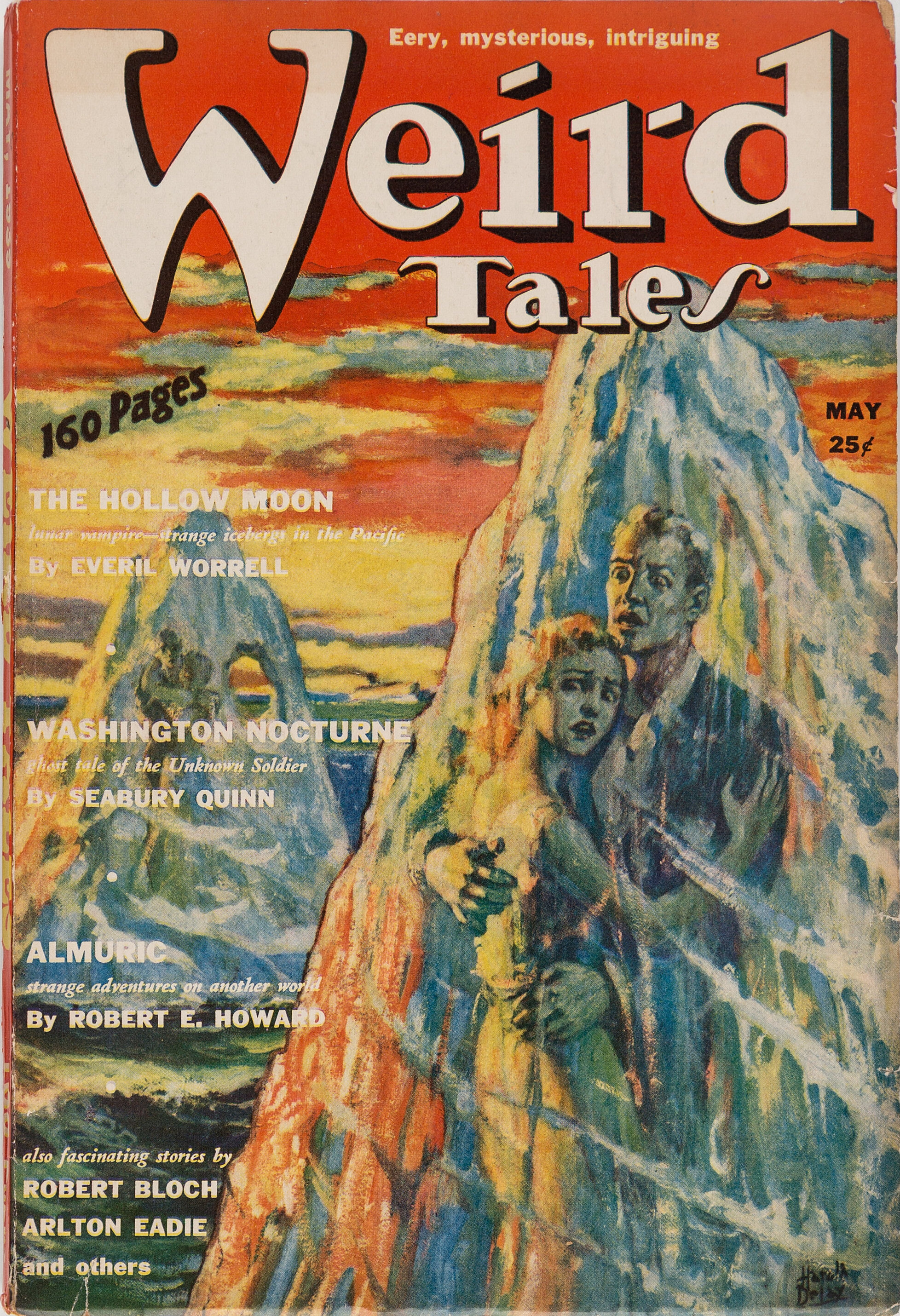 Cover of the pulp magazine Weird Tales (May 1939, vol. 33, no. 5). Cover art by Harold S. De Lay. Published by Weird Tales, Inc.